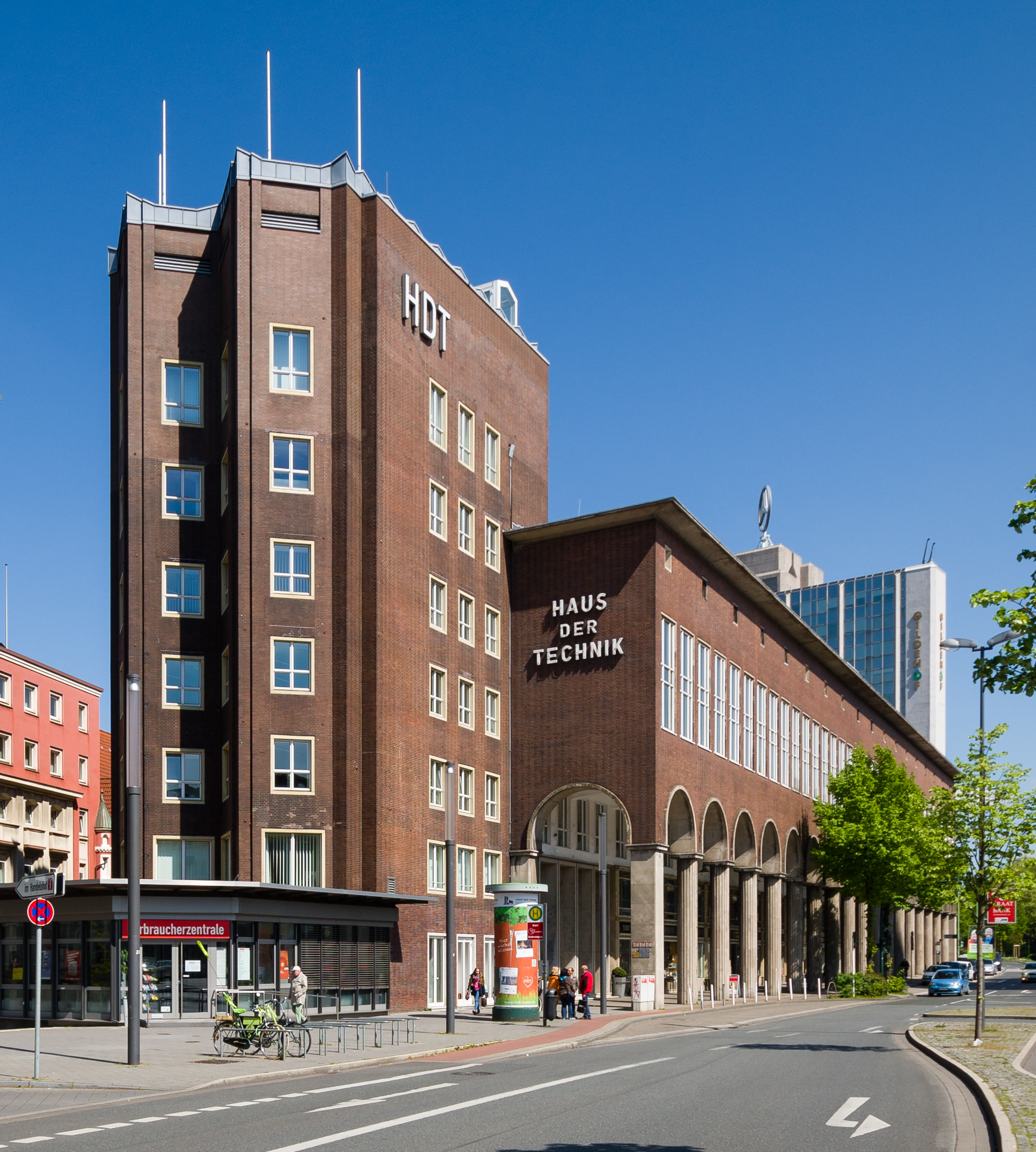 Haus der Technik (House of Technology) in Essen